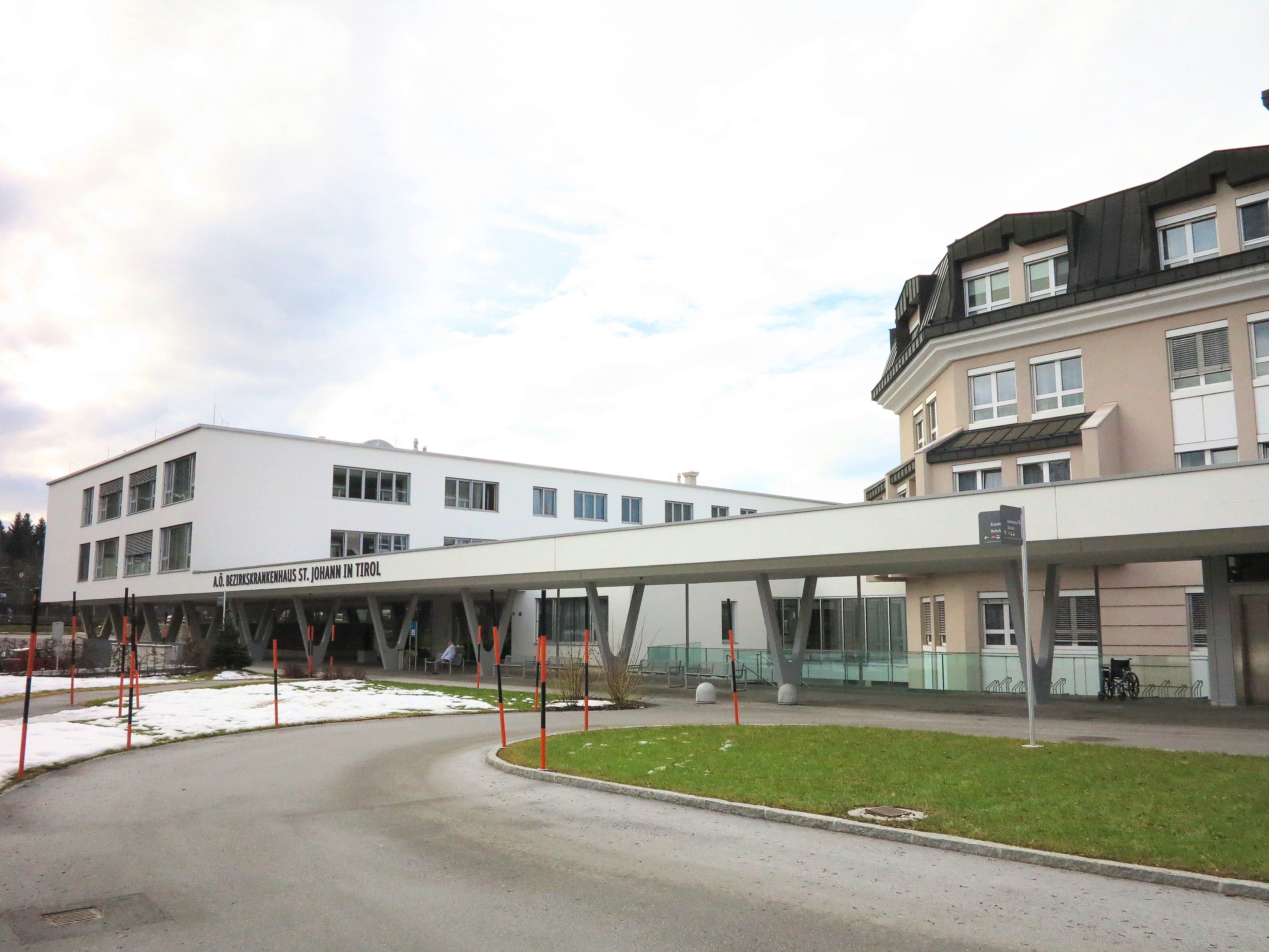 Bezirkskrankenhaus St Johann in Tirol